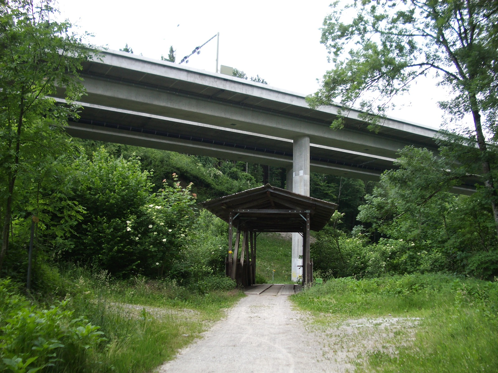 Jonental ZH, Switzerland